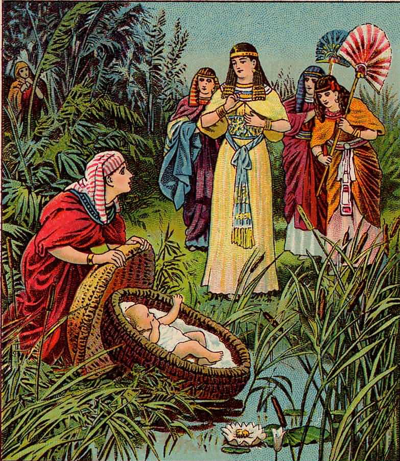 The Childhood of Moses, as in Exodus 2:1-10, illustration from a Bible card published 1900 by the Providence Lithograph Company